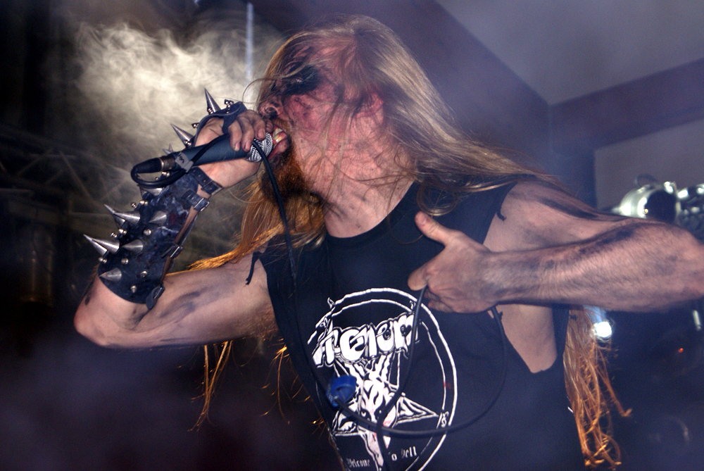 Koldbrann performing live at the Ragnarök-Festival 4 (2007)